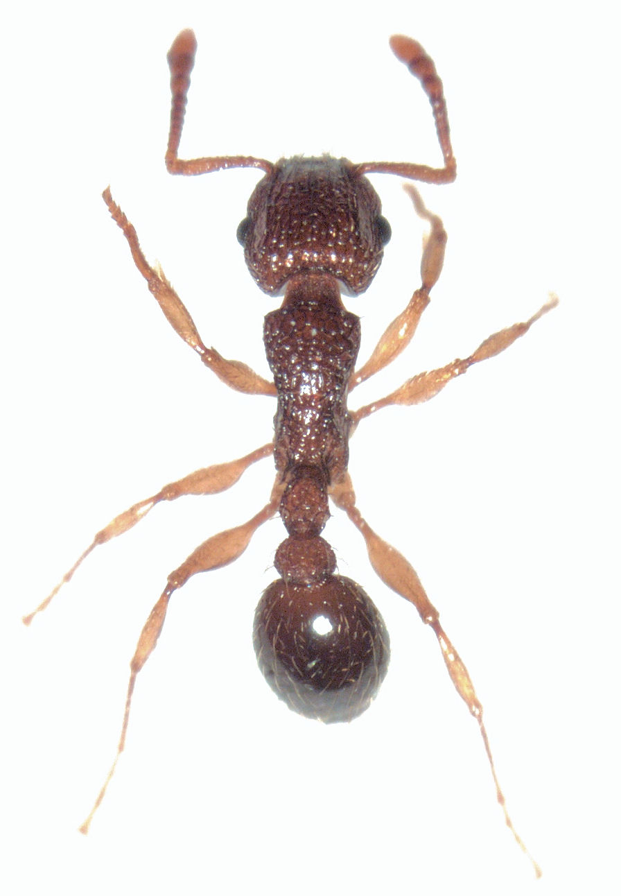 adult worker Tetramorium bicarinatum